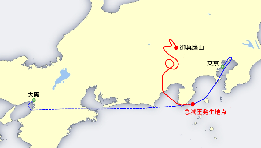 Route of Japan Airlines Flight 123 (Japanese)